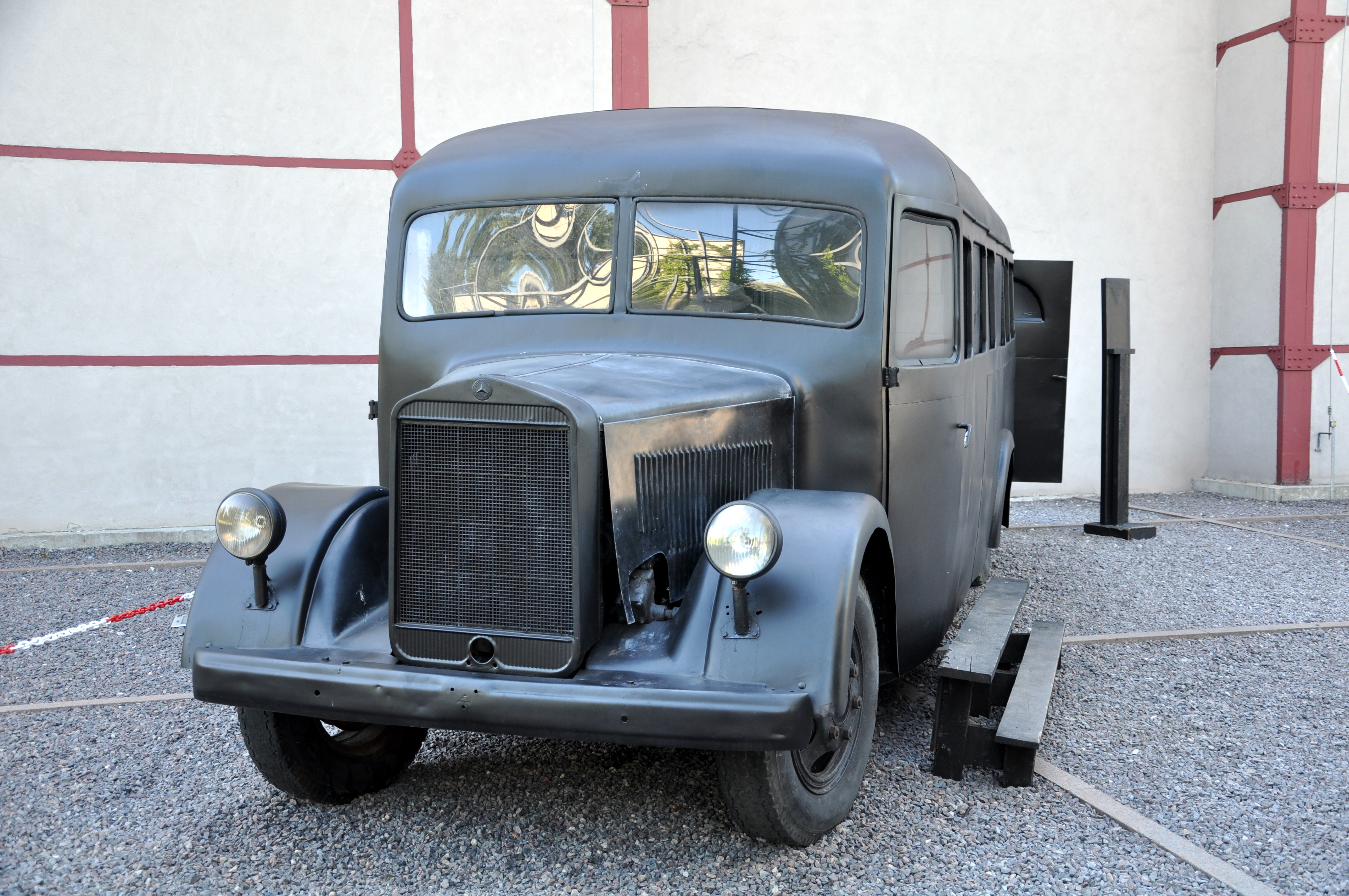 A German-built prison bus used by the Soviet NKVD during the 1940 Katyn massacre. Dubbed the black crow ("chornyi voron"), such Mercedes-Benz built cars were widely used throughout the USSR in the 1940s and 1950s. A reconstruction built for the award-winning Katyń (2007) by Andrzej Wajda, currently (2010) on exposition at the Warsaw's Warsaw Uprising Museum.